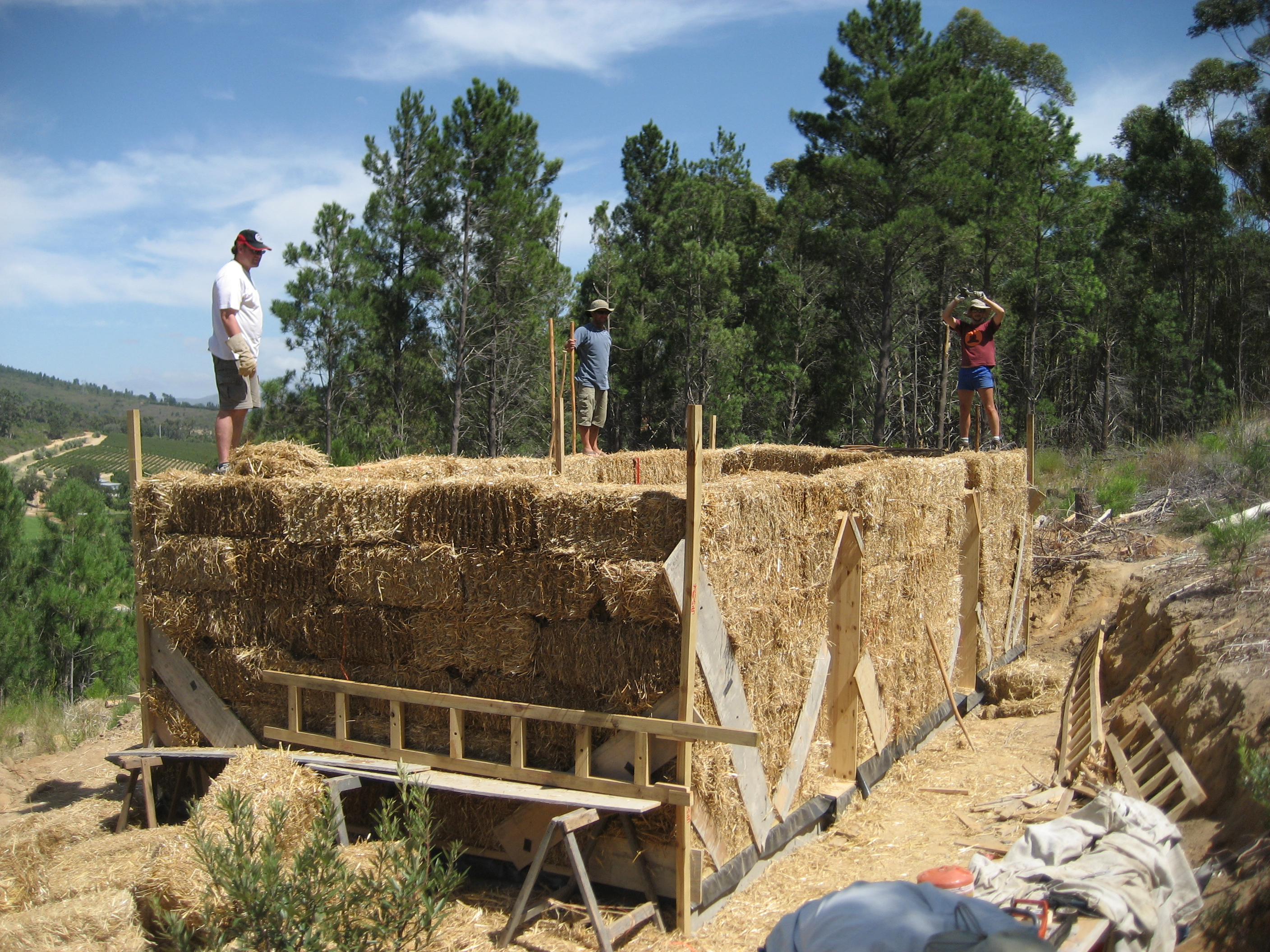 Building a straw-bale house